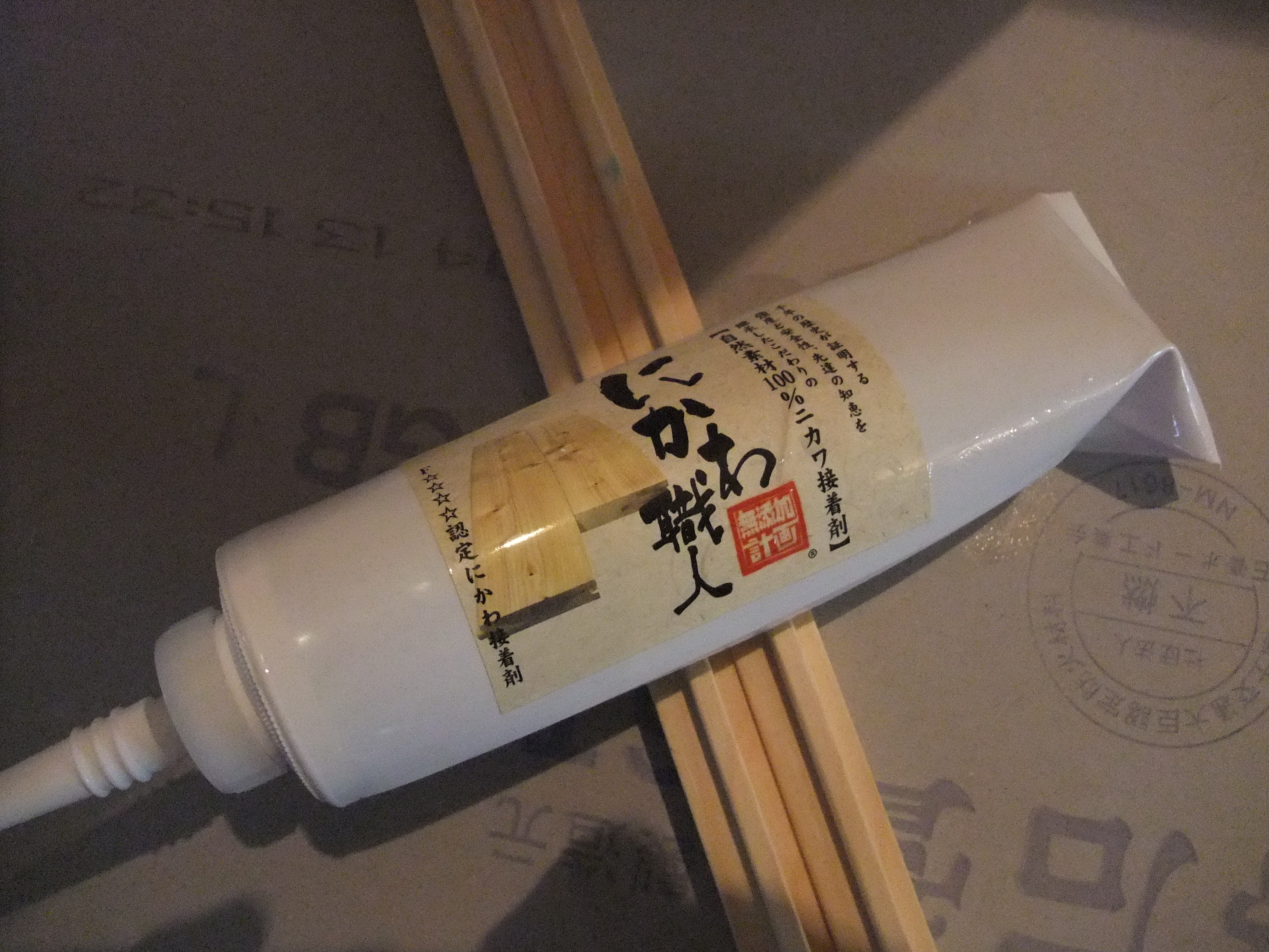 Animal glue